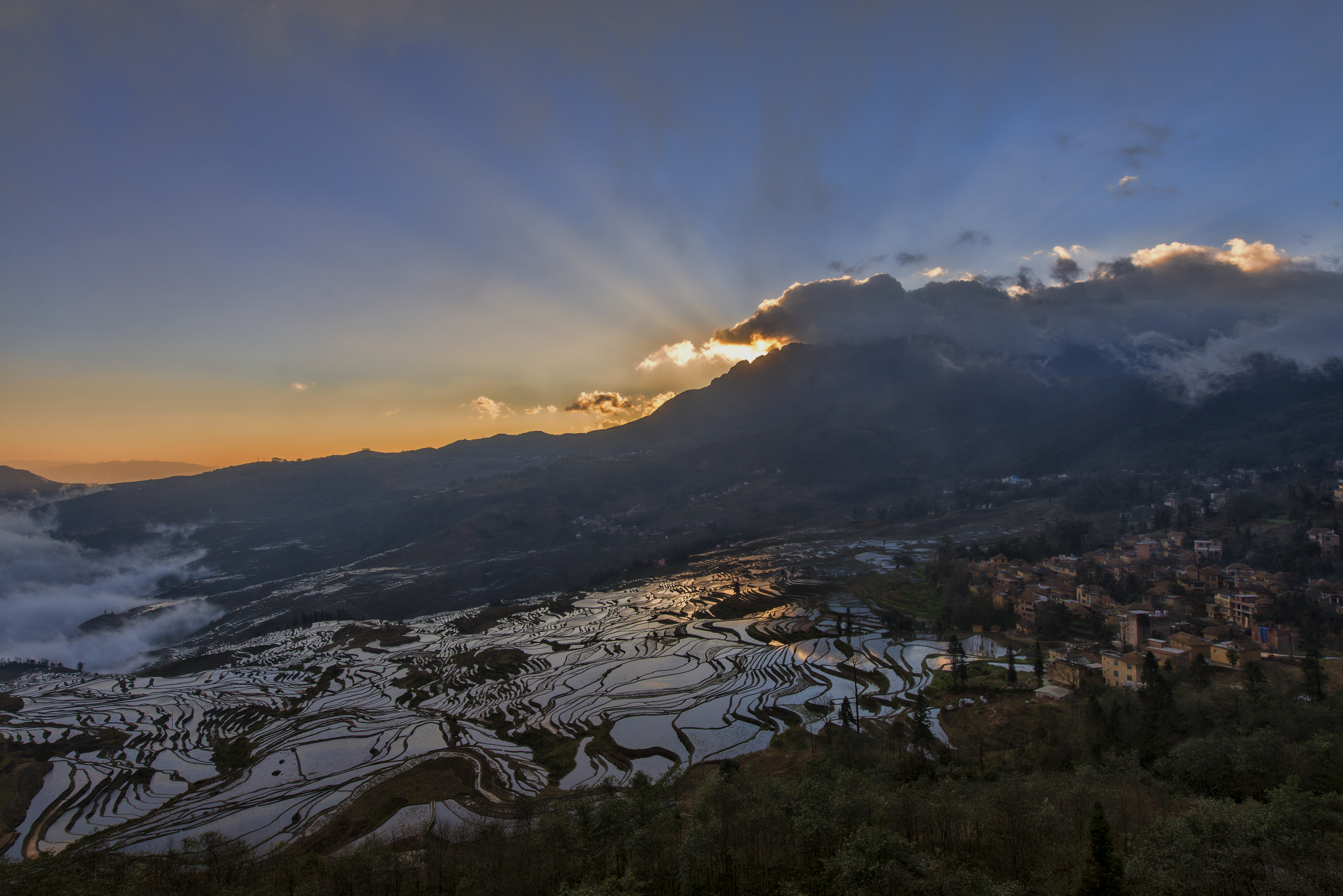 yuanyang rice terrace yunnan china 2012 duoyishu sunrise 多依树